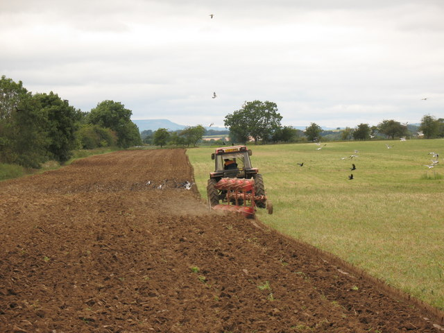 Autumn ploughing at Morton on Swale. In the distance is the familiar outline of penhill, some 20 miles away.